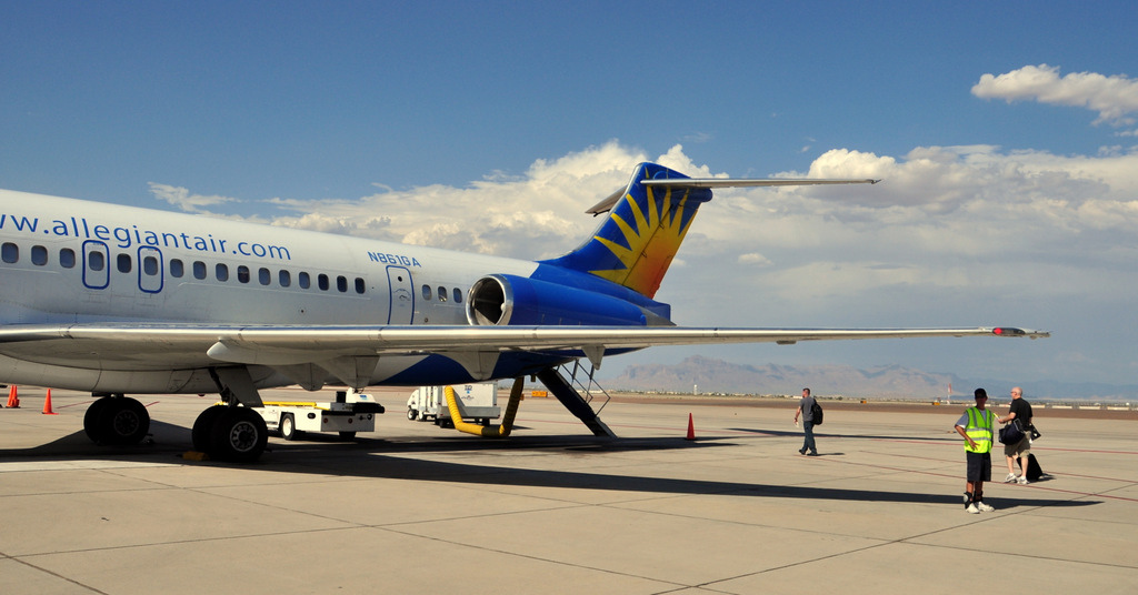 Passengers boarding an Allegiant Air MD-83 at Phoenix/Mesa Airport, Arizona.